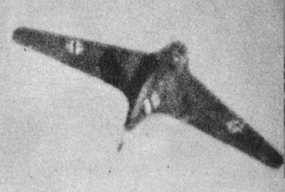 Photo of Luftwaffe Me-163 being shot down by USAAF P-47 of the 8th Air Force, as seen from the P-47's gun camera.